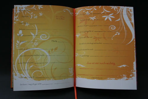 bookpictur